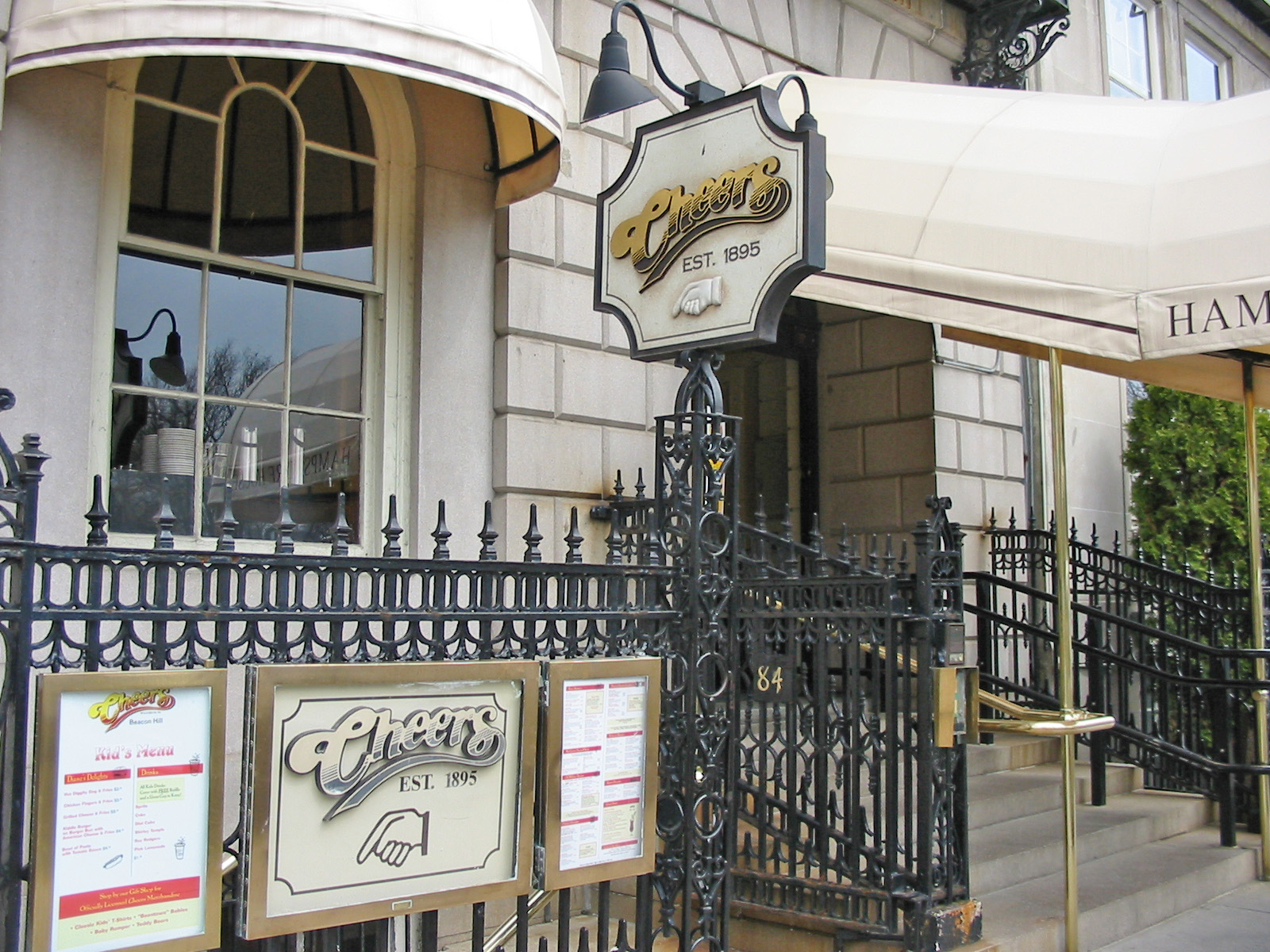 The Cheers site in Boston